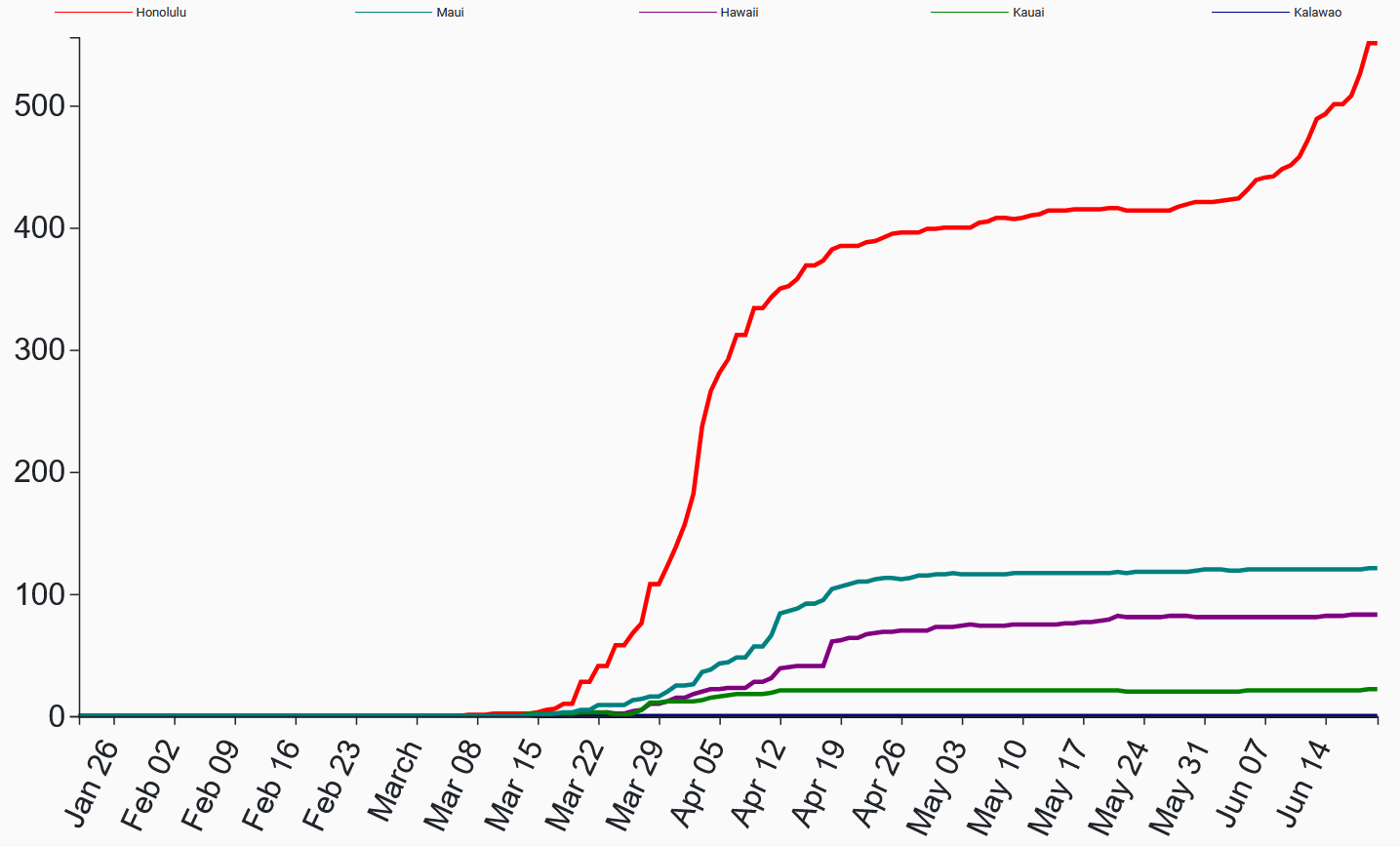 The graph represents, in Hawaii, confirmed cases (red) and deaths (green).